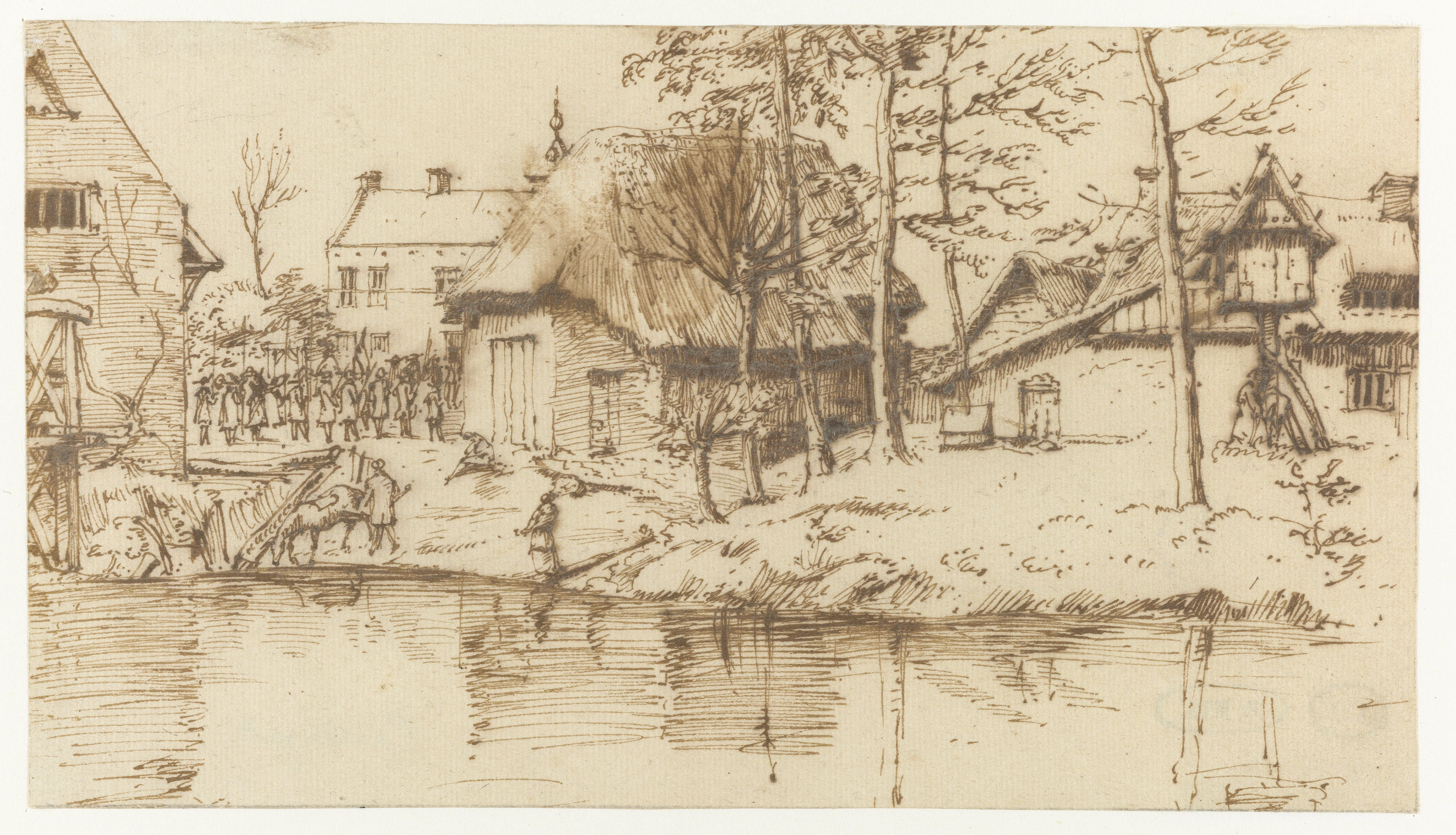 Drawing of Kestergat by Constantijn Huygens II, 1676 (Rijksmuseum)